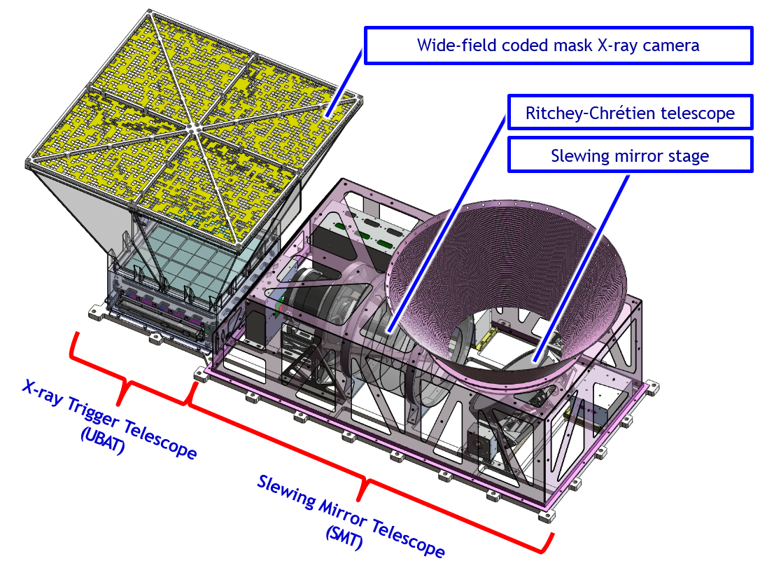 Schematic of UFFO-Pathfinder